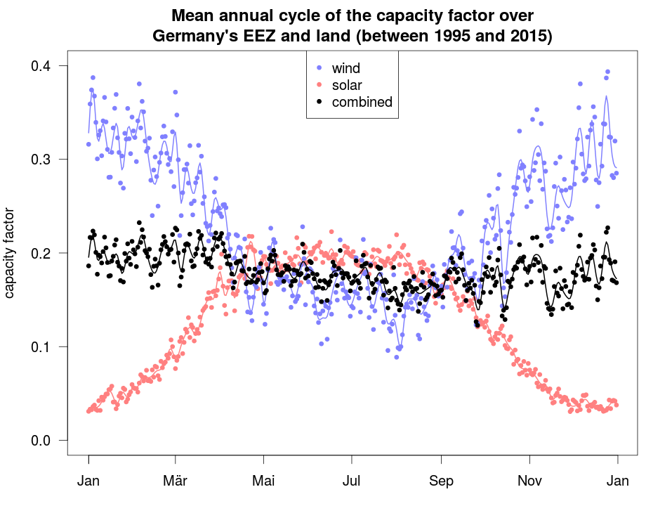 Seasonal cycle of capacity factors for wind and photovoltaics in Germany under idealized assumptions. For wind and PV an equal distribution over Germany has been assumed and a modern wind energy turbine and PV module has been assumed. For wind the Exclusive Economic Zone is included. Details of the methodology are described in Kaspar et al. 2019